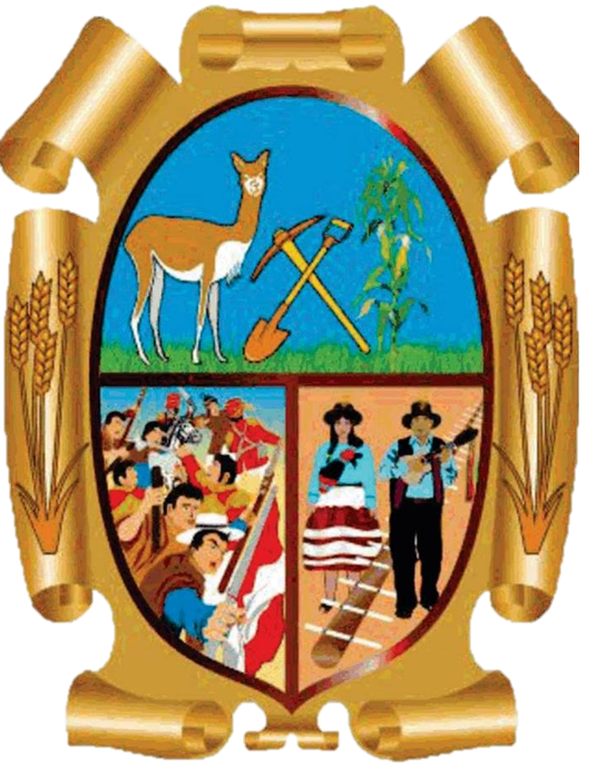 representa los costumbres y riqueza de Hualla